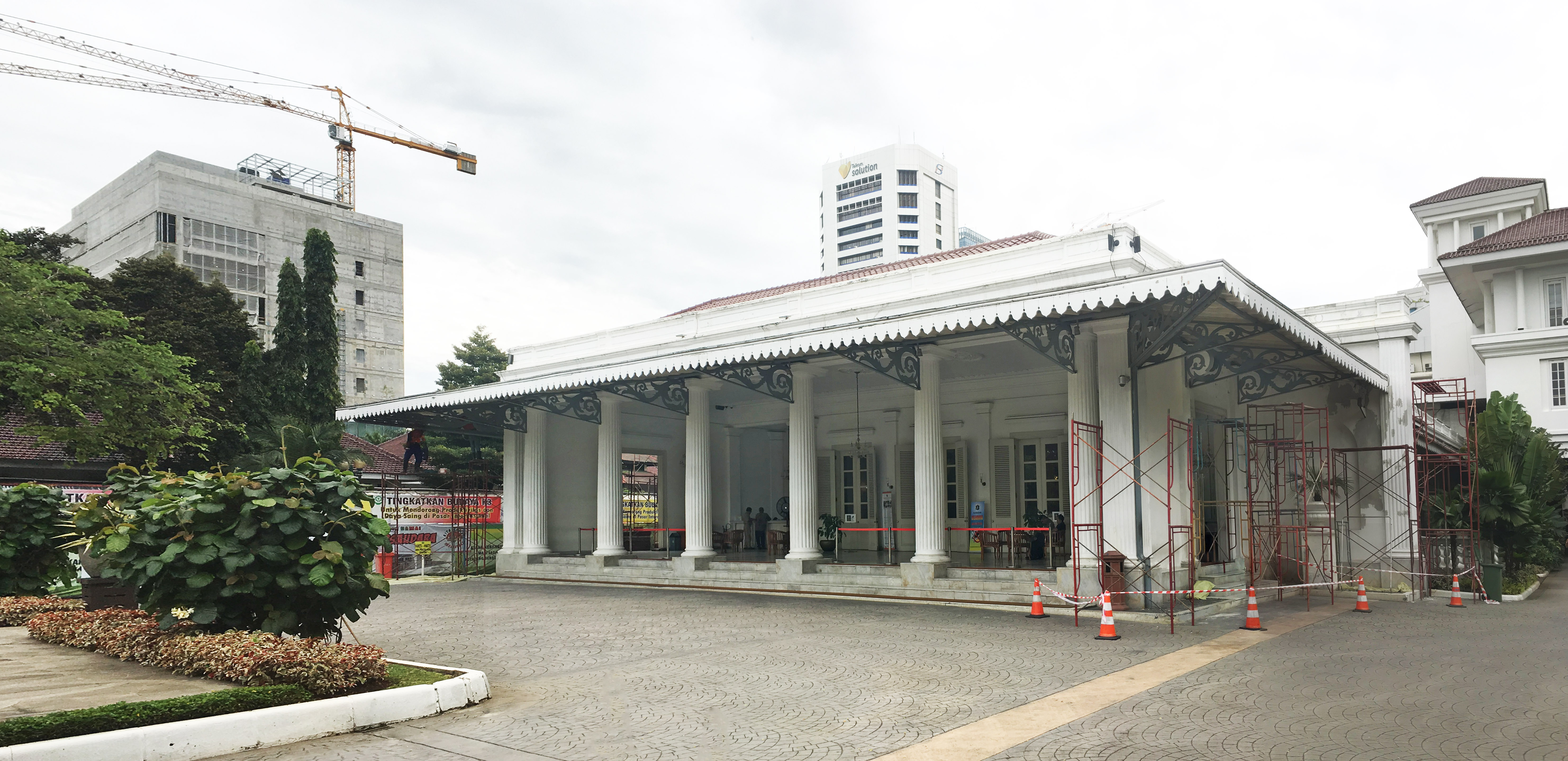 The office of the governor of Jakarta in the complex of Jakarta City Hall.